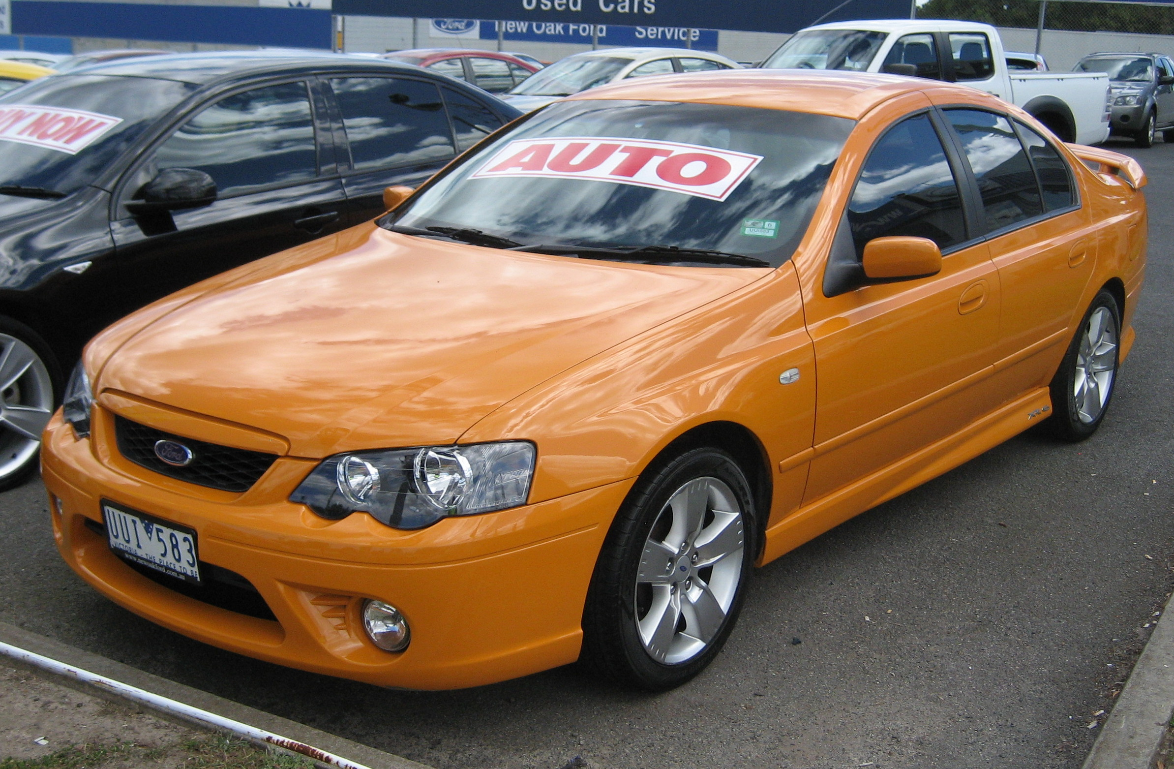 2006 Ford Falcon (BF) XR6 sedan. Photographed in Victoria, Australia. Vehicle registration enquiry resultsJurisdictionVictoriaRegistrationUUI583Chassis code6FPAAAJGSW6A50343Engine codeJGSW6A50343Compliance date2006-11Year of manufacture2007 (not a typo)